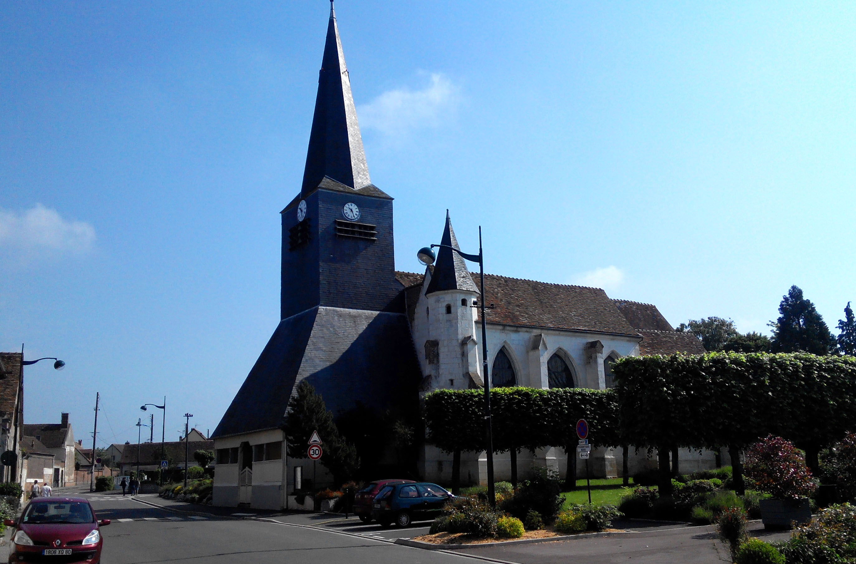 Tillé, Rue de l'Église